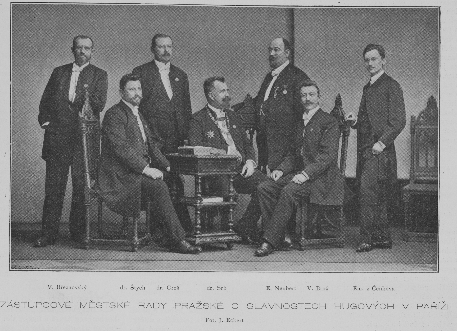 Members of Prague City council attending Victor Hugo's celebrations in Paris 1902.